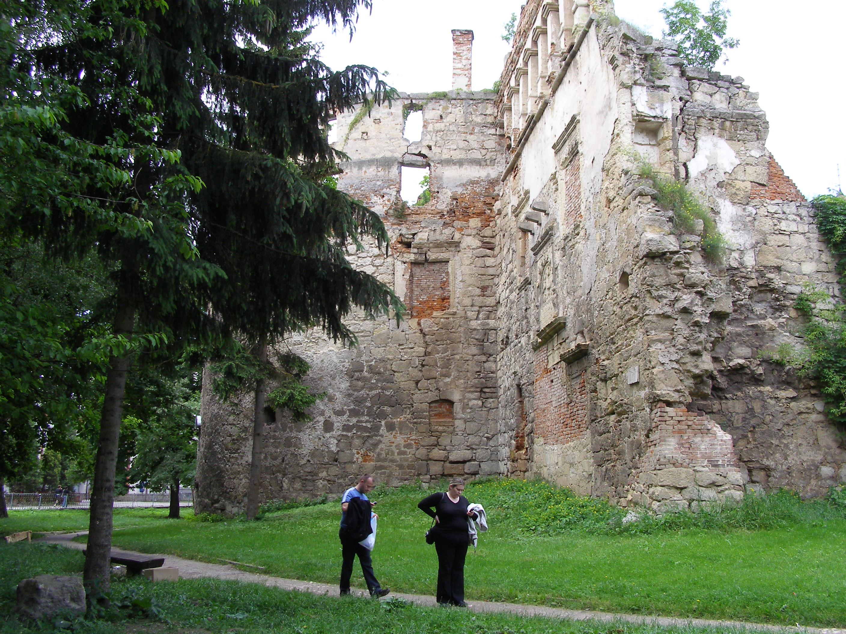 Castle in Berezhany, Ternopil region, western Ukraine.